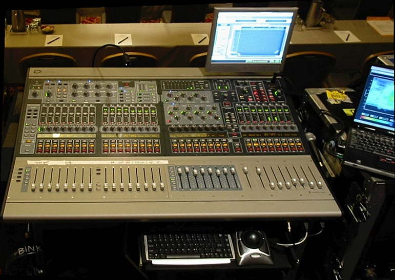 Digidesign Venue Profile digital mixer [1] in use on a corporate event. Image shows LCD monitor mounted to mixer at upper right and computer keyboard with trackball on a sliding shelf underneath in front.